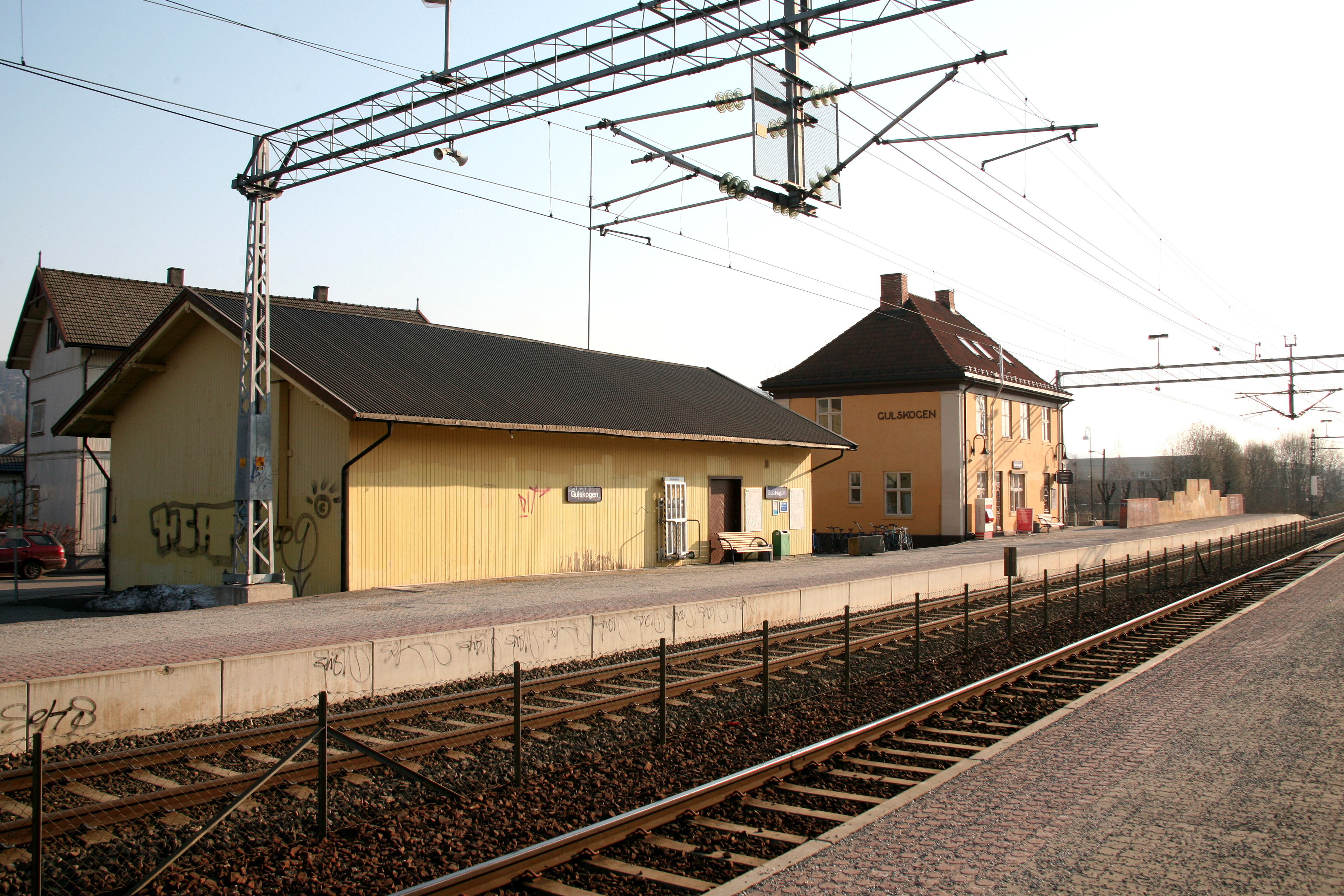 Picture of Gulskogen Railway Station (Norway)